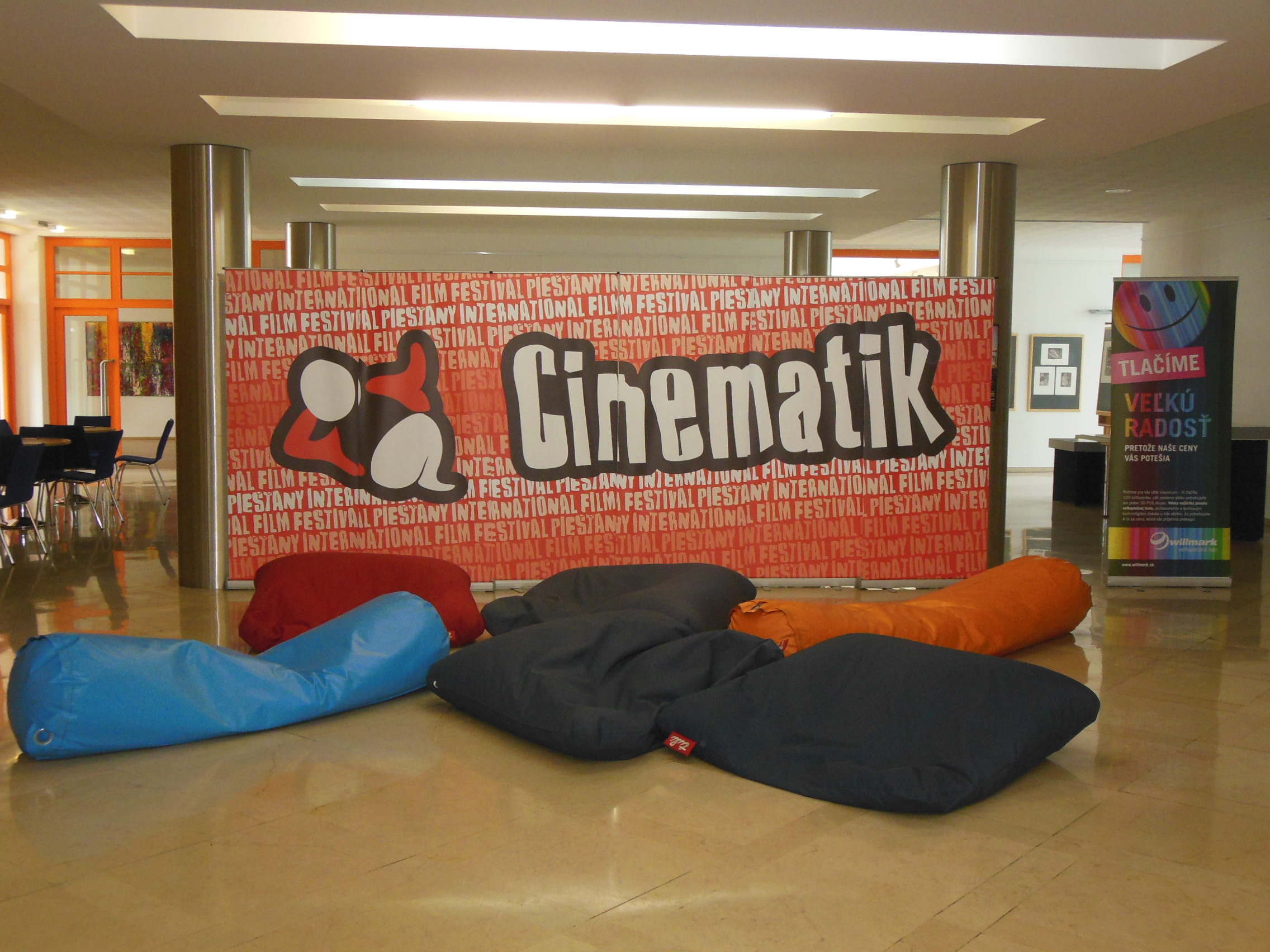 Interior of foyer of cinema Fontána in Piešťany, Slovakia, during 8. IFF Cinematik 2013.